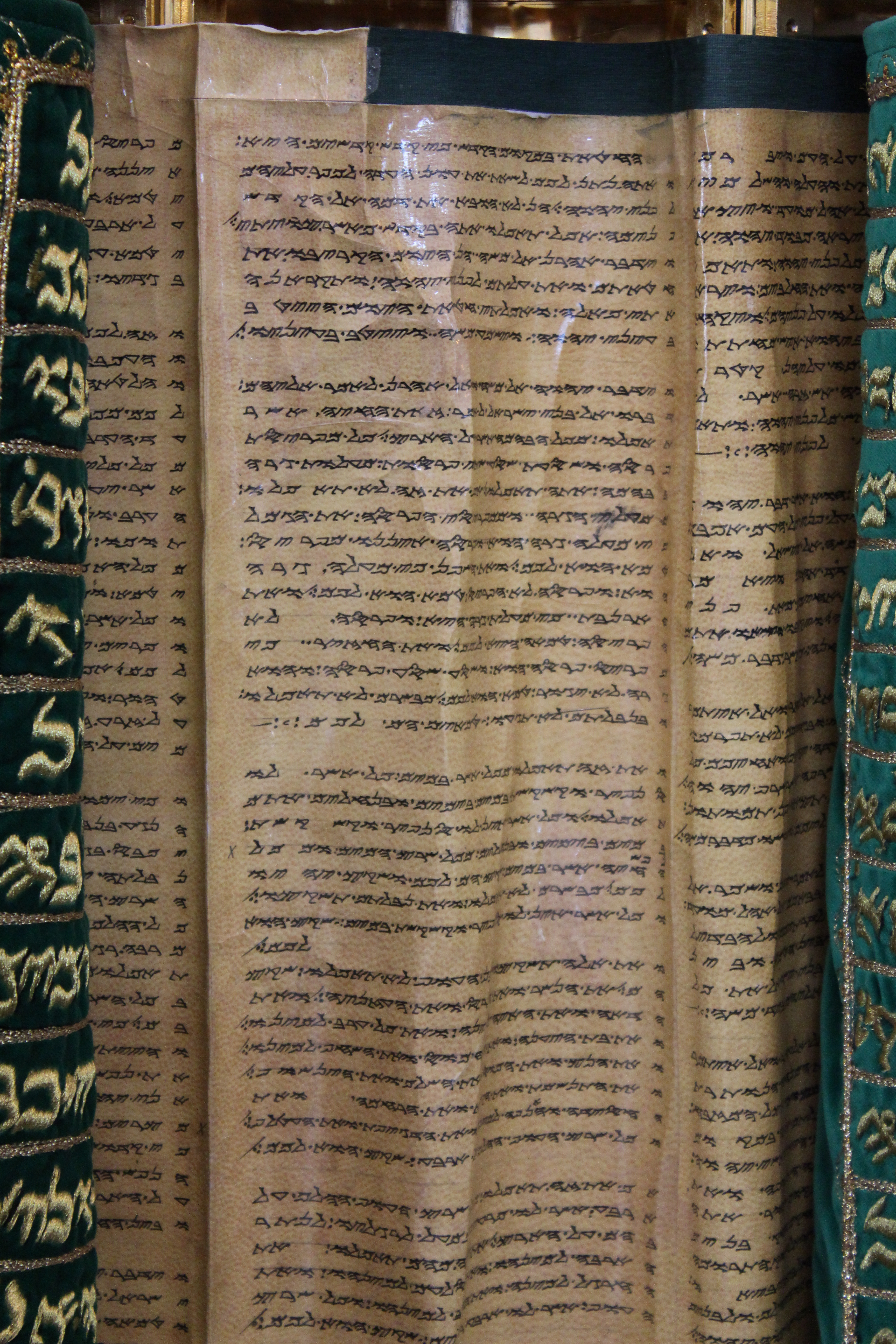 Samaritan Torah scrolls,Mount Gerizim Samaritan synagogue, Mount Gerizim This image was taken as part of the Elef Millim project trip to Mount Gerizim, near the town of Nablus (biblical Shechem) which was held on Friday, 26th April 2013. To view all images uploaded as part of the Elef Millim Project